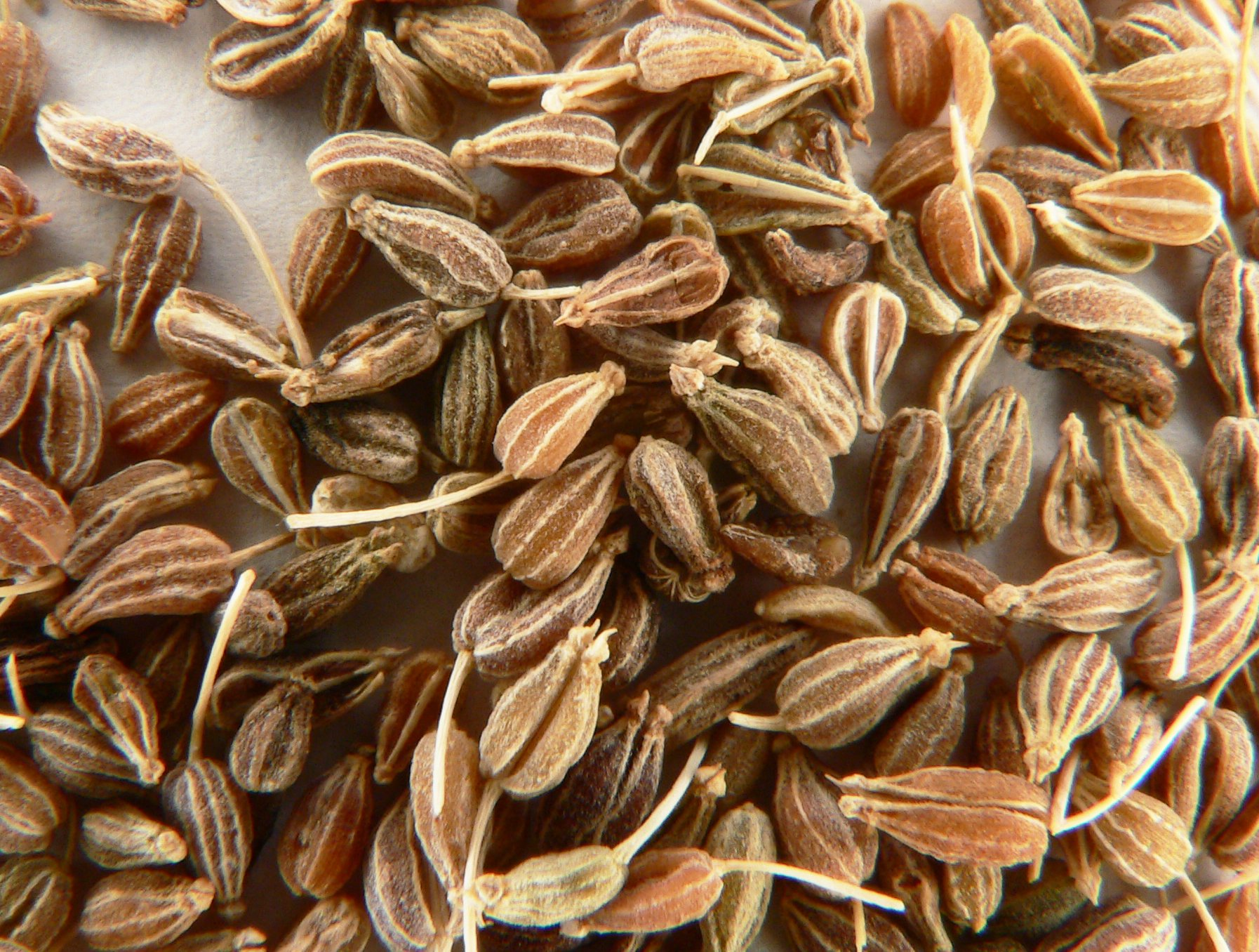 Aniseed